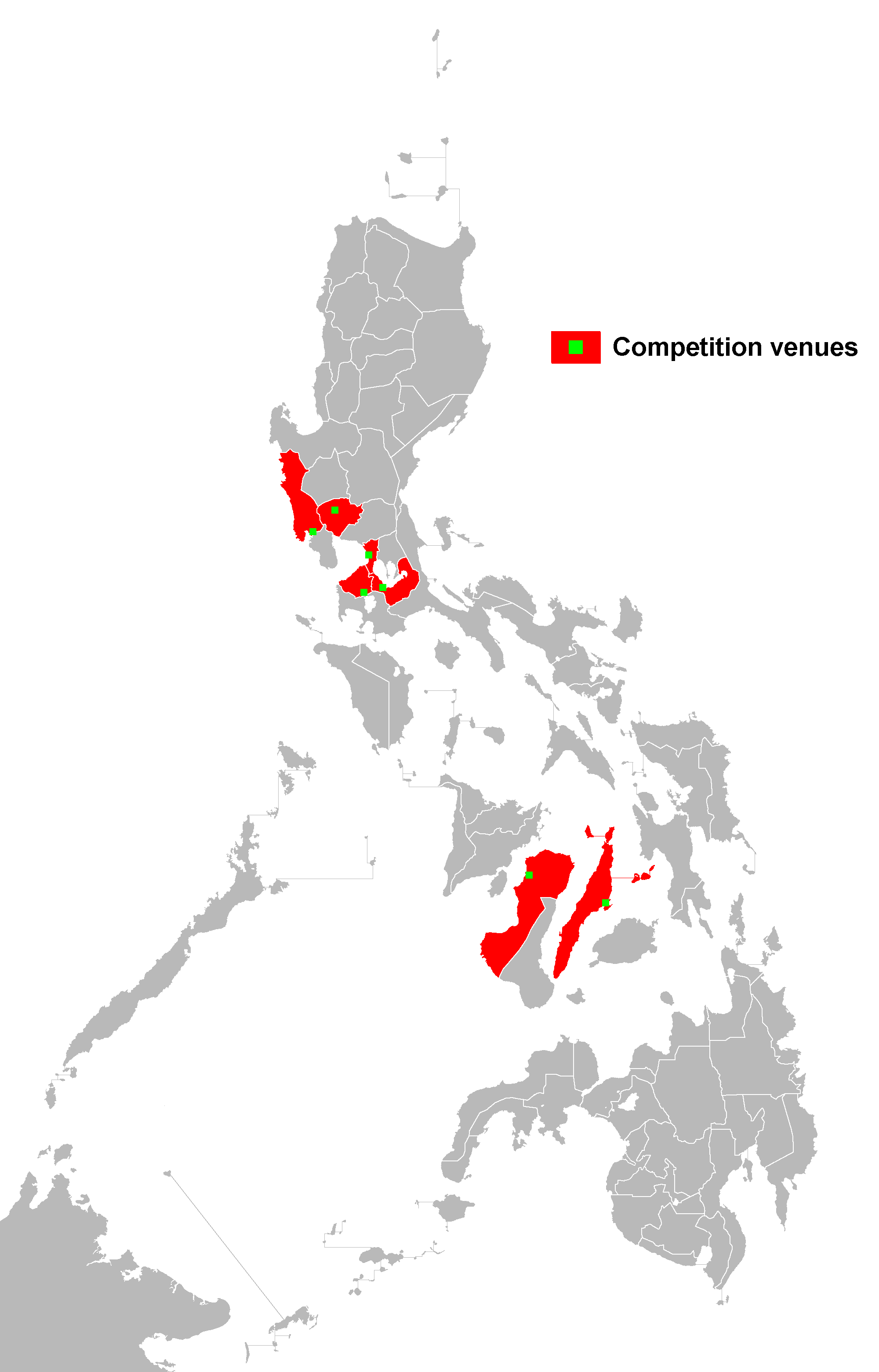 Host cities of the 2005 Southeast Asian Games